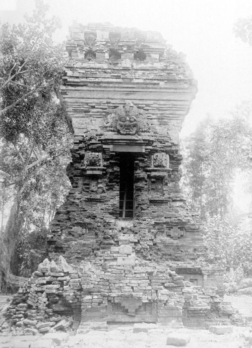 The Candi Bangkal